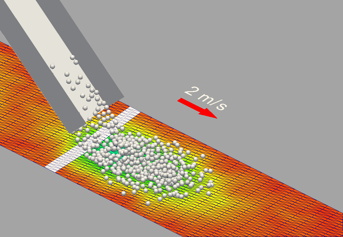 The figure depicts the deformation of a conveyer belt due to particle impact.